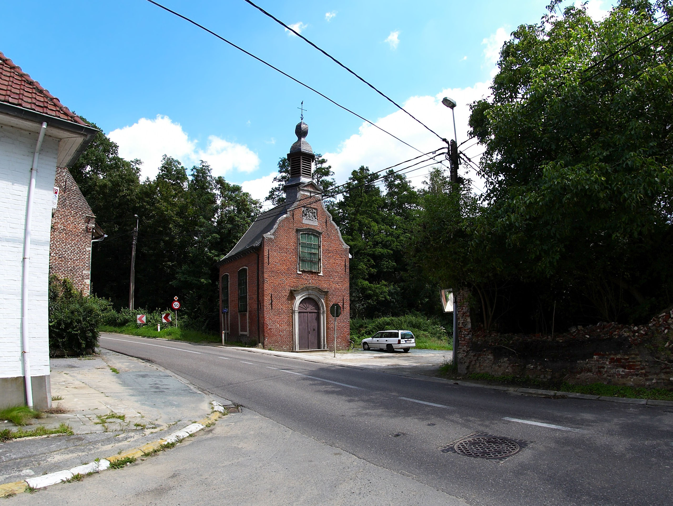 Chapel in Neerijse (Huldenberg), Belgium. The photo has been taken with a AF Fisheye Nikkor 10.5 mm lens. Other photos of the same buiding: - OpenStreetMap(Info)